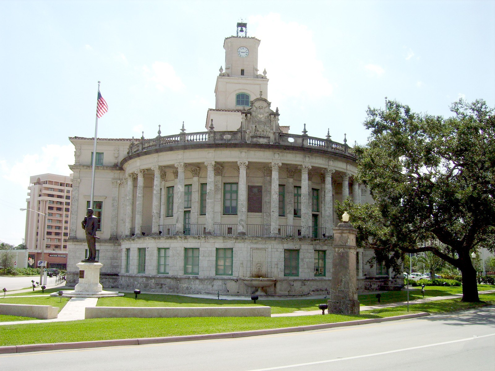 The city of Coral Gables' city hall 10/7/06.